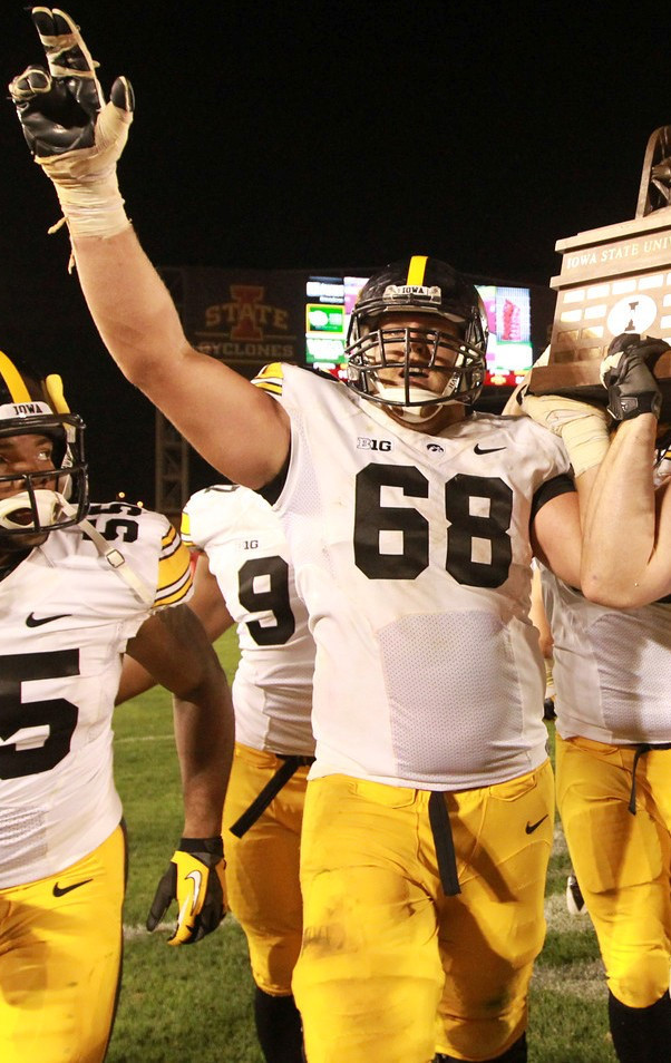 Iowa Hawkeyes offensive linemen, Brandon Scherff, in 2013.